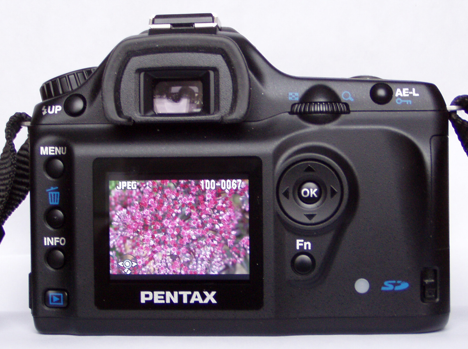 Pentax *iST-DS 6.1-megapixel digital single-lens reflex camera, rear view.